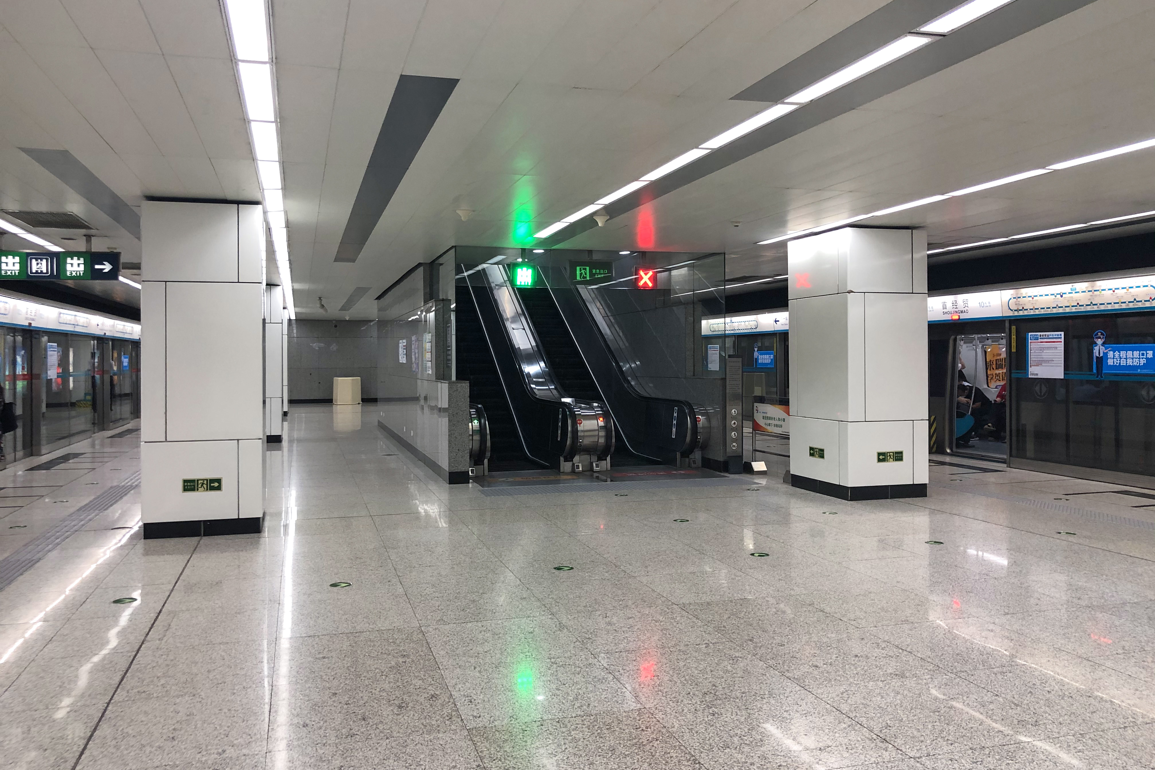 CUEB Station, interchange station for Fangshan Line.